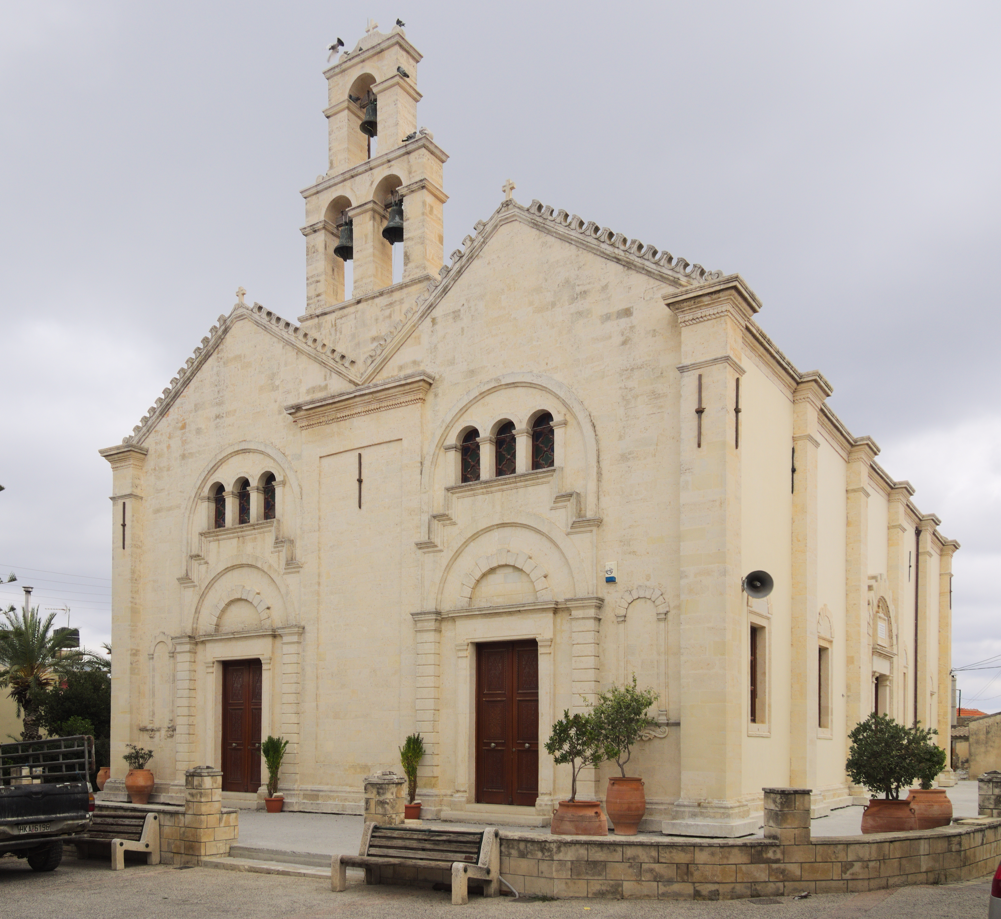 Metropolitan hurch of Saint Menas and Dormition of Theotokos in Episkopi, Hersonissos. It was built in 1882-4.